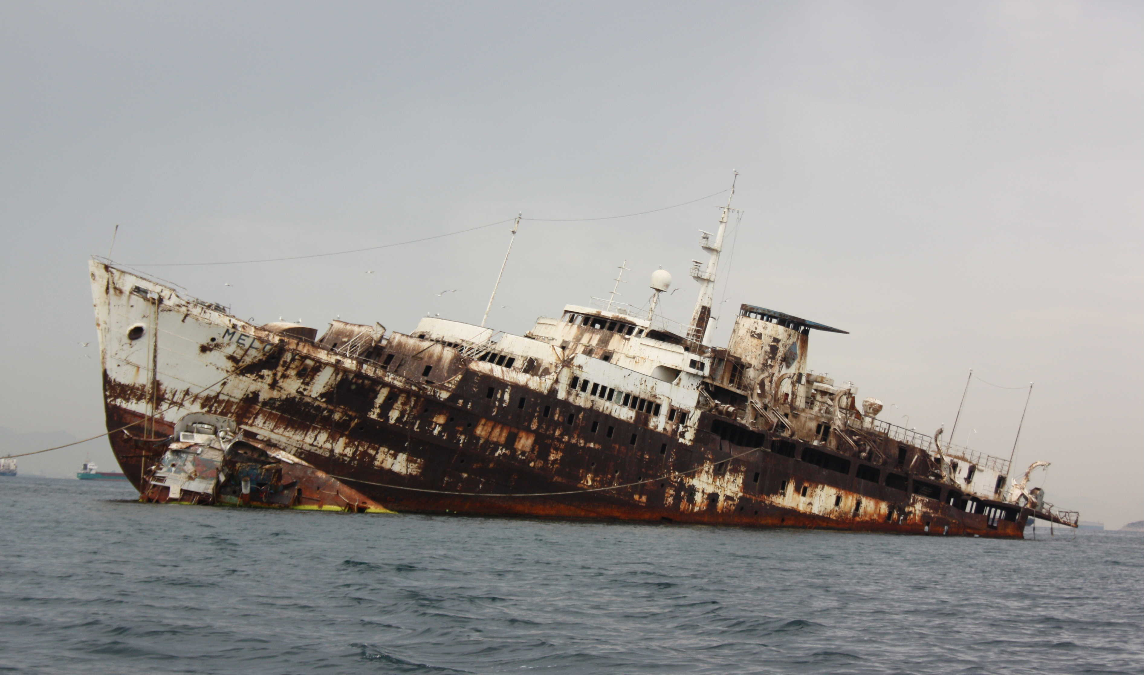 The wreck of the cruise ship Melody in Piraeus on June 2, 2009.